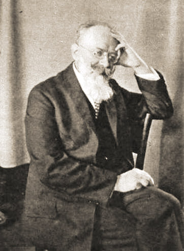 Michał Siedlecki (1873-1940) - Polish zoologist.